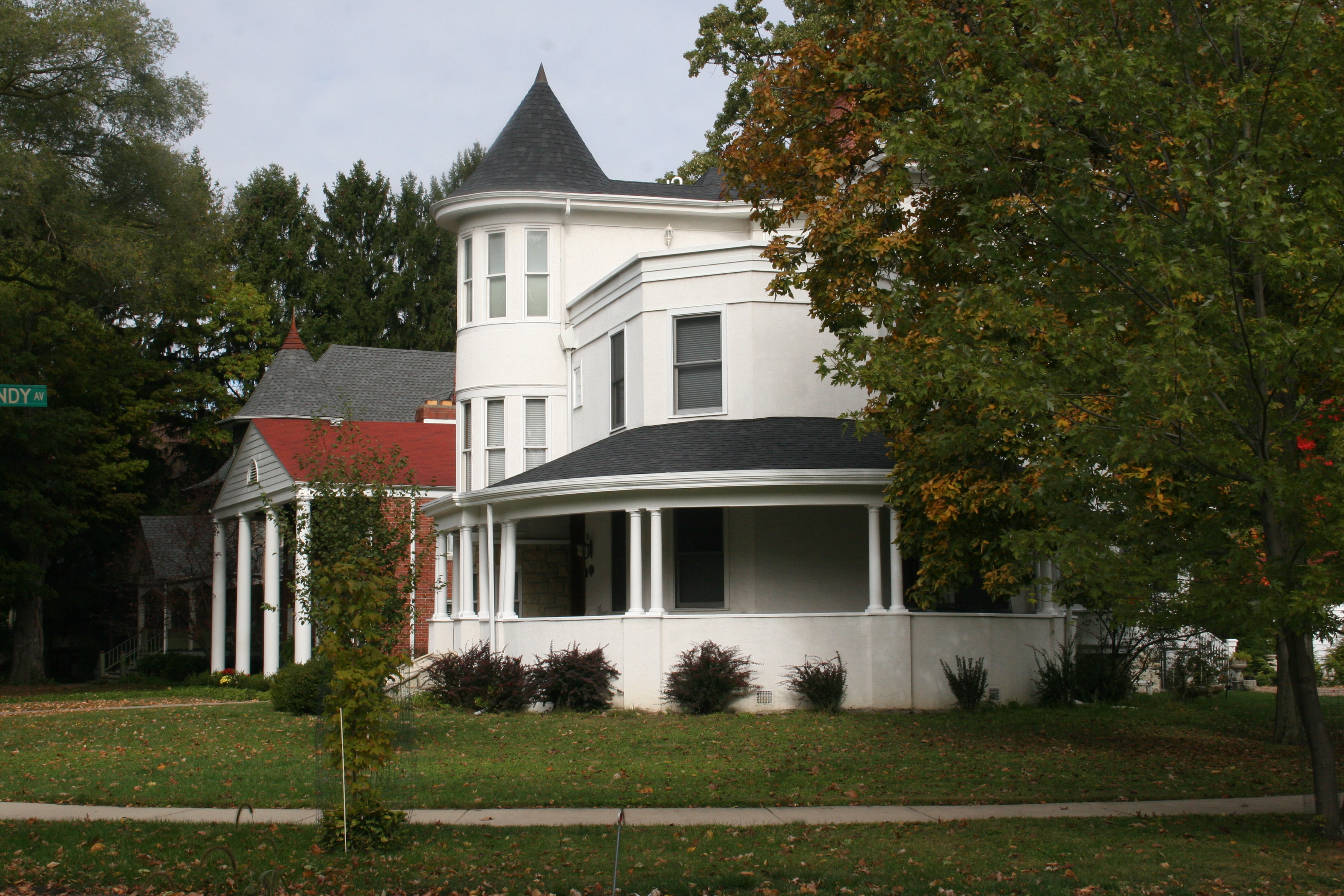 Houses along McClellan Avenue at Lundy Avenue in the Old Edgebrook District